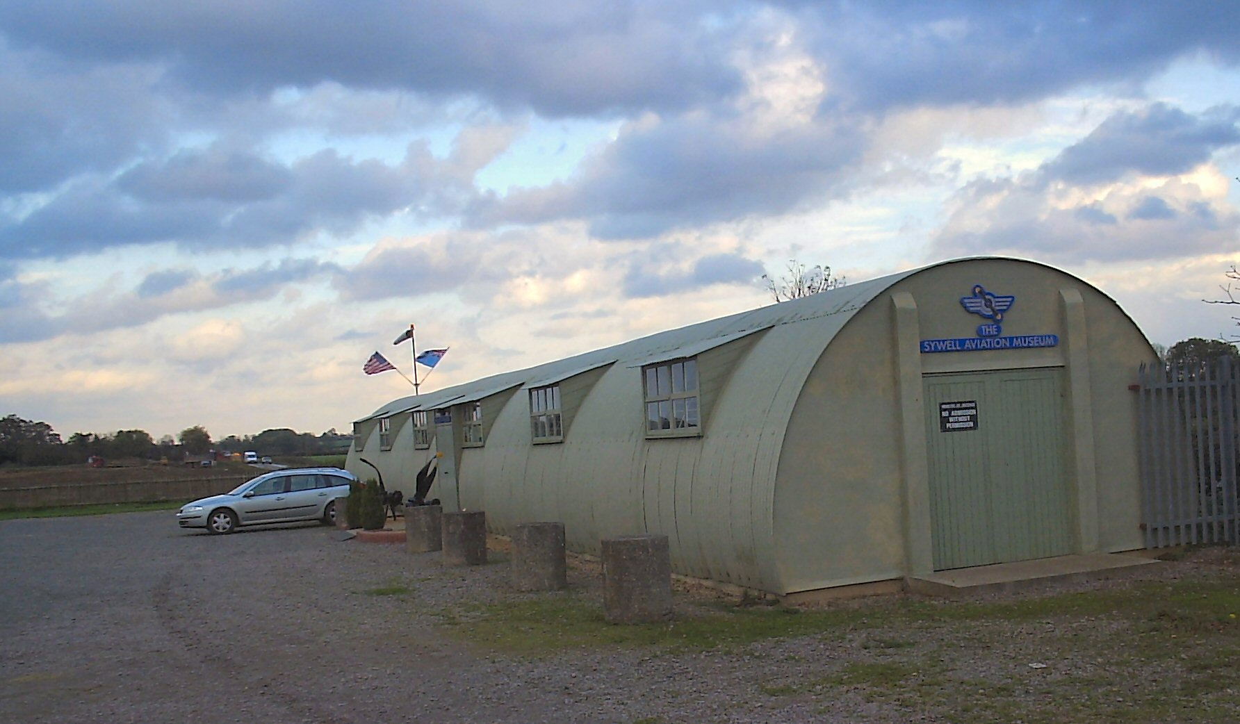 The aviation museum at Sywell. Picture by R Neil Marshman (c)